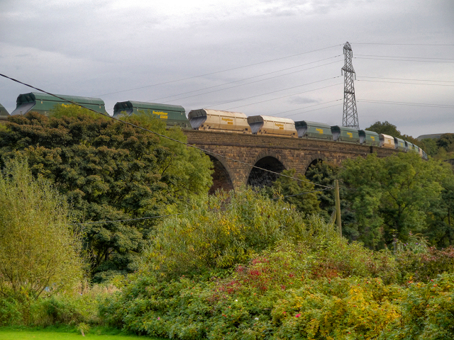 Midland Railway Viaduct, Chapel Milton